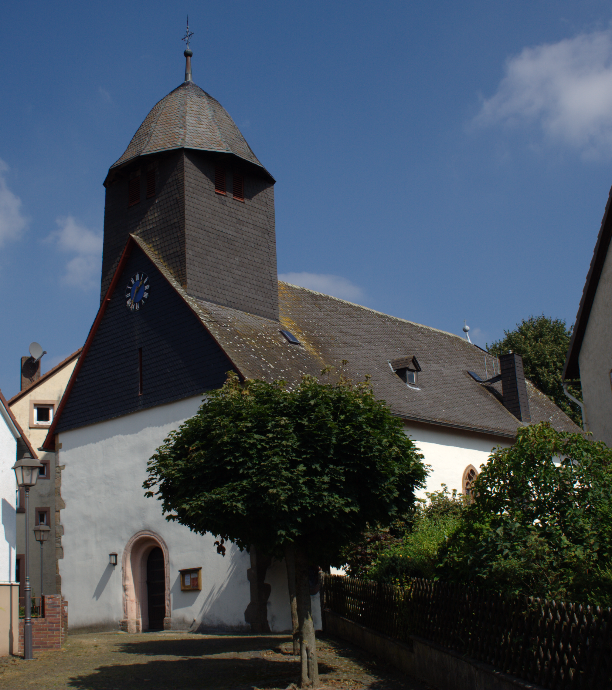 Church in Zell / Romrod / Vogelsberg / Hesse / Germany